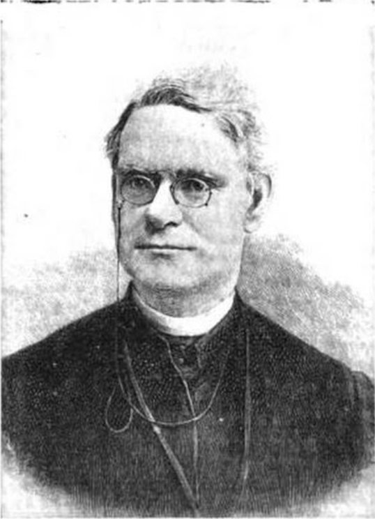 Rev. James A. Doonan, President of Georgetown University from 1882 to 1888